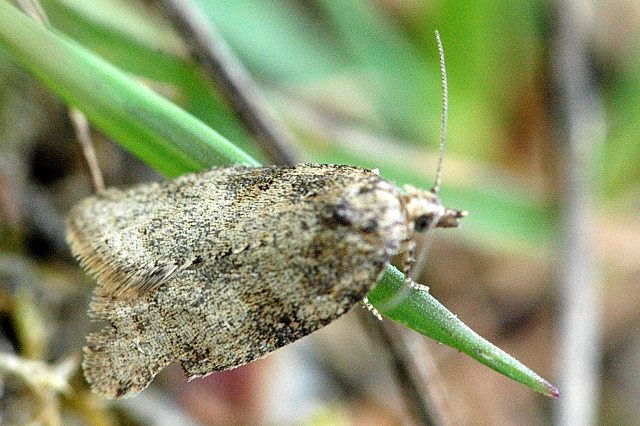 Picture taken in Commanster, Belgian High Ardennes . Please contact James Lindsey when you think this is a different taxon. James Lindsey, the copyright holder of this work, hereby publishes it under the following licenses: Attribution: James Lindsey at Ecology of Commanster